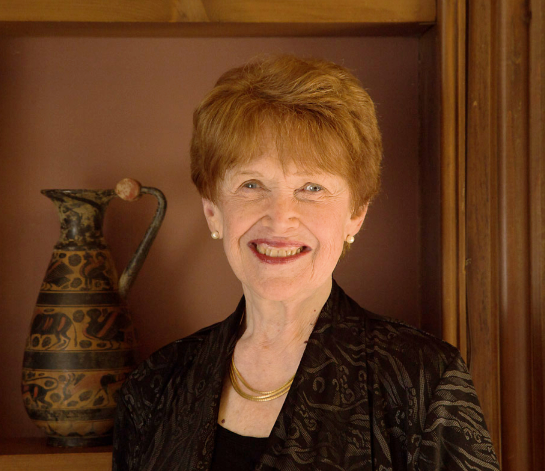 Riane Eisler, cultural historian and author